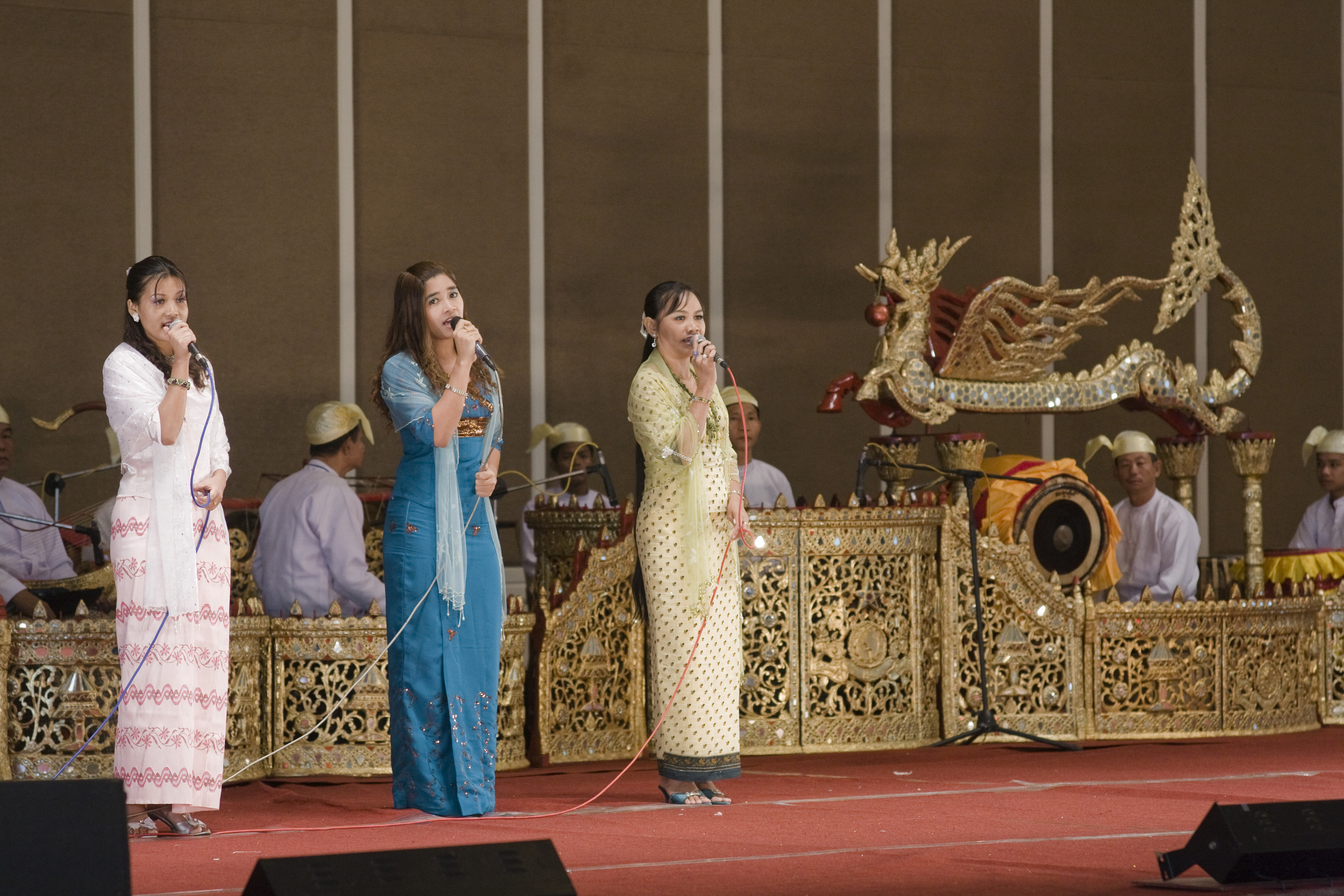 Burmese singers at Naypyidaw state luncheon for Thai delegation, October 2010, with traditional Burmese orchestra in background